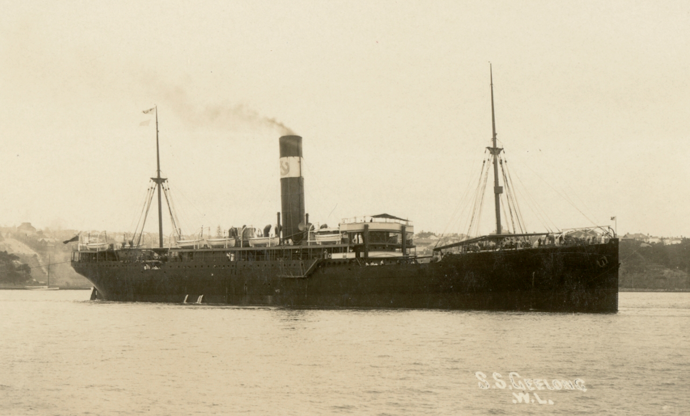 SS Geelong